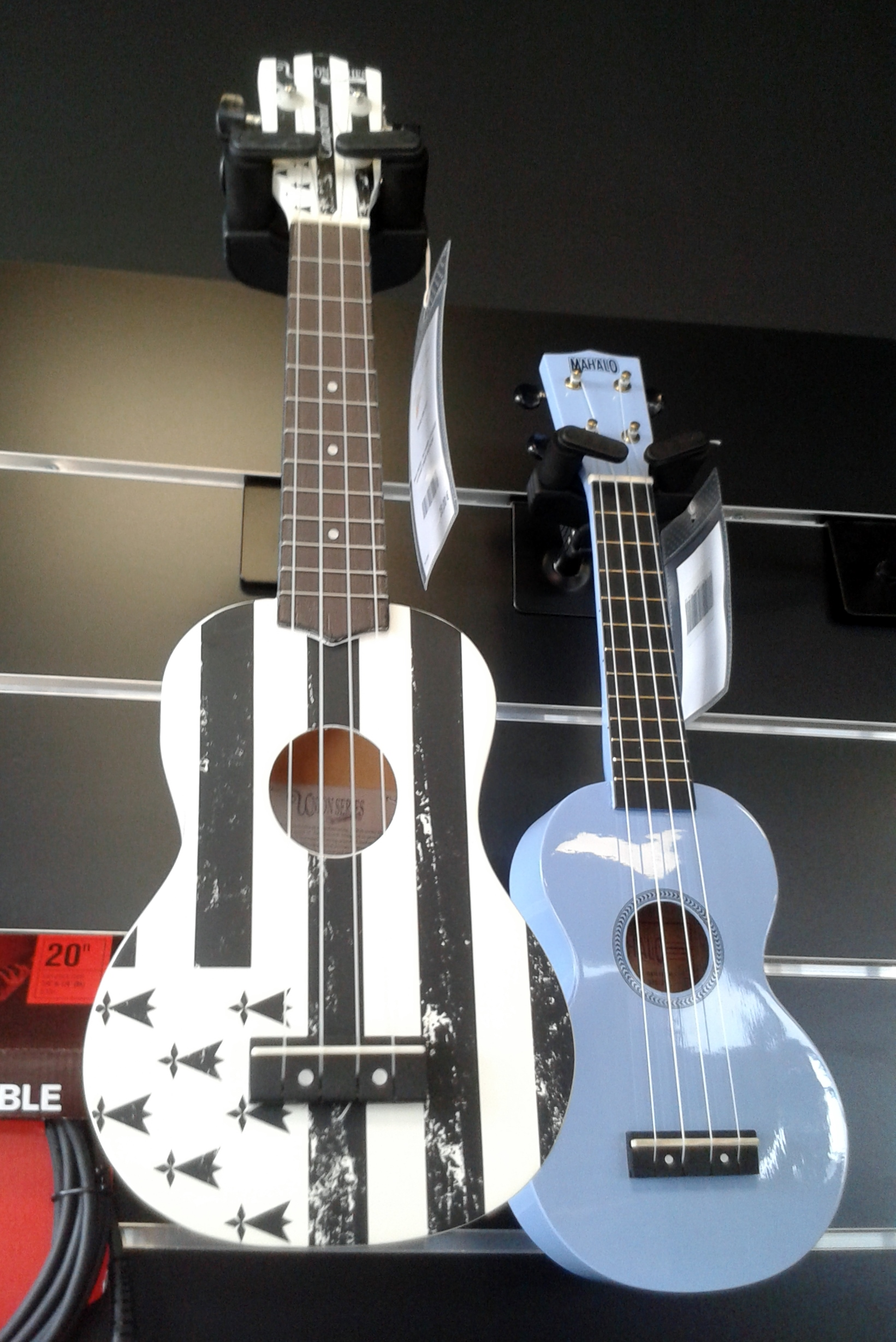 A ukulele decorated with the flag of Brittany (Gwen ha Du), in a music shop near Nantes (France)